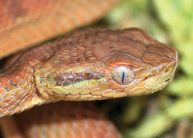 Paratype of Bothriechis guifarroi in life: close-up of head of USNM 57987. Photograph by Josiah H. Townsend.